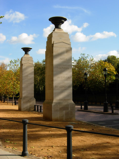 Memorial Gates, Constitution Hill This memorial, of which only part can be seen here, was inaugurated by her Majesty The Queen in 2002. An accompanying plaque explains that it 'commemorates the service and sacrifices of 5 million men and women from the Indian sub-continent, Africa and the Caribbean who volunteered to fight in the two World Wars...'.